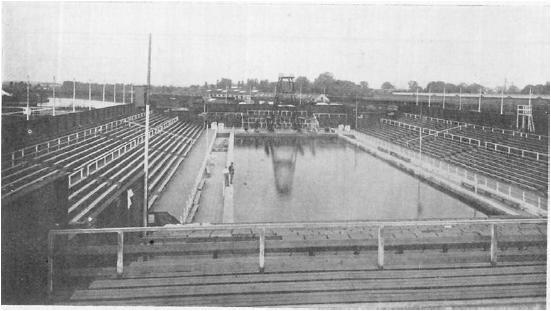 Olympic Swimming Stadium, Amsterdam. 1928.